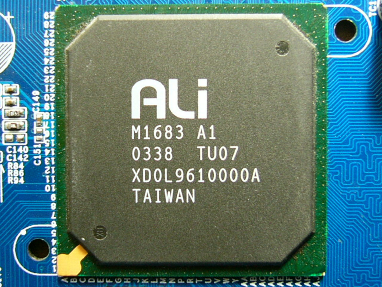 Chipset North bridge ALi M1683